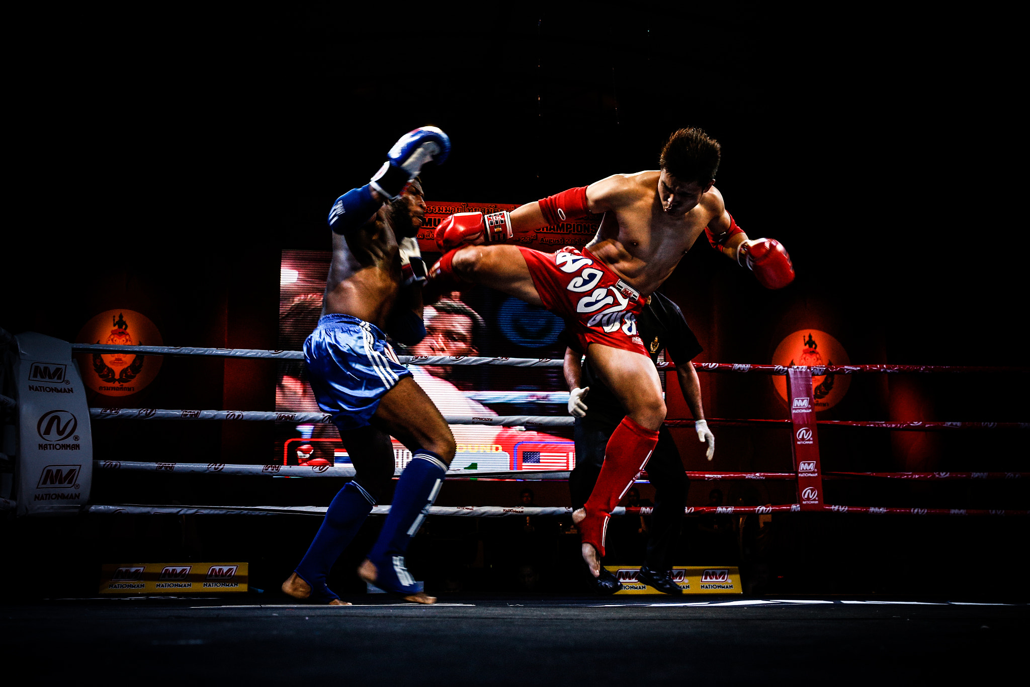 500px provided description: Muay Thai Fight Us Vs Burma [#Thailand ,#Bangkok ,#Boxing ,#Men ,#Muay Thai ,#Thai Boxing ,#World Championship ,#Kick Boxing ,#Burma vs. USA]